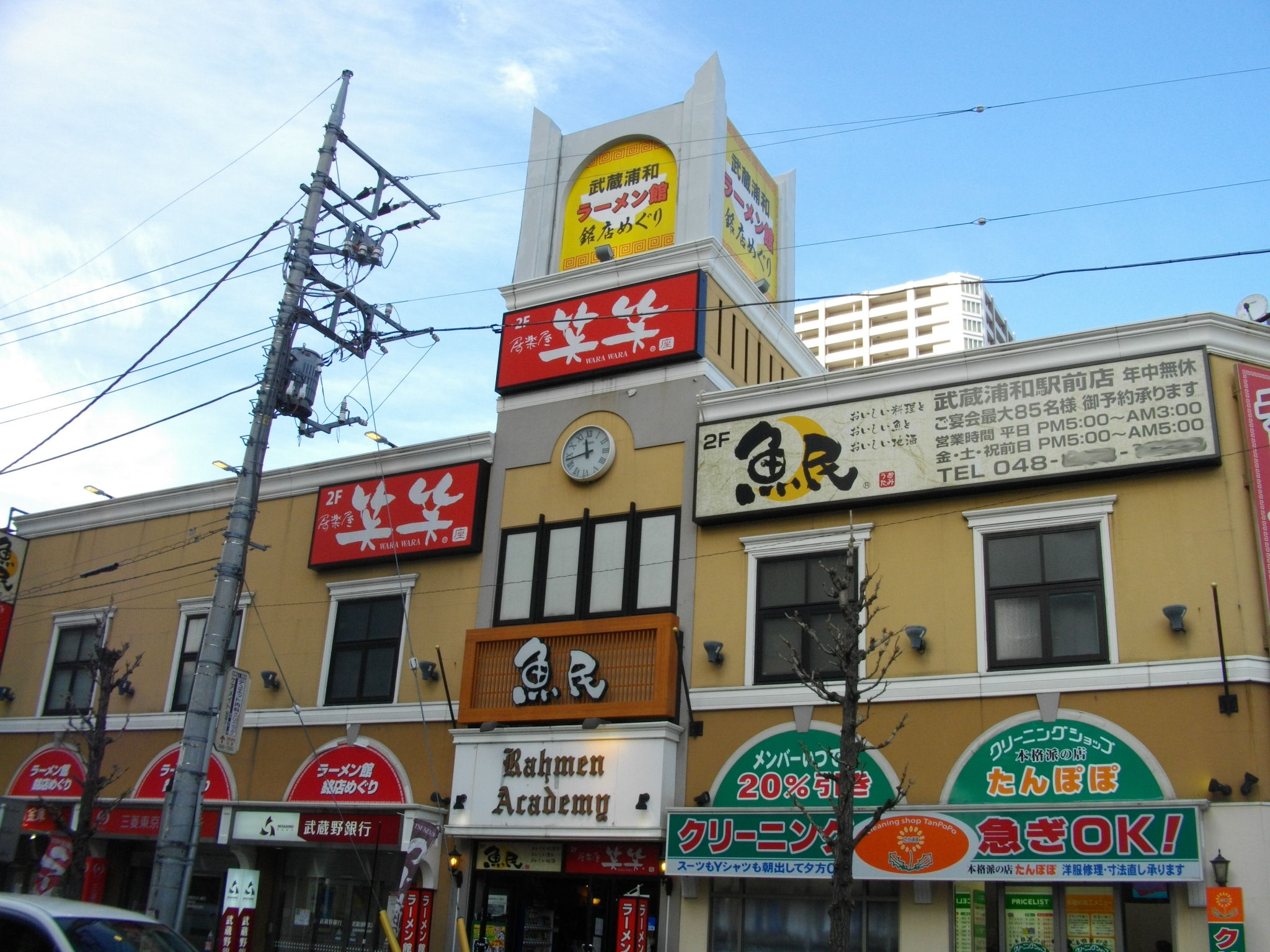 Musashi-Urawa Rahmen Kan